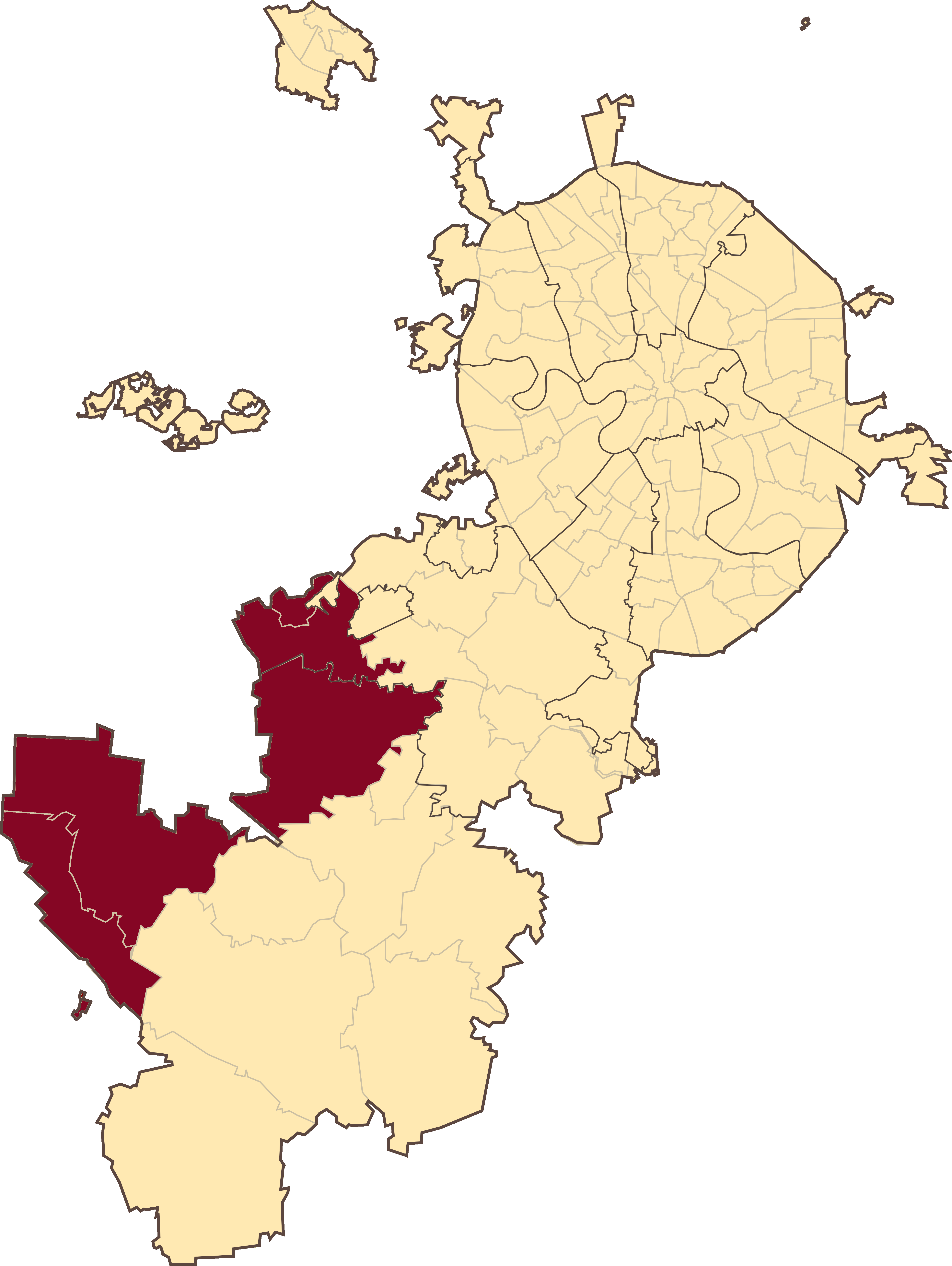 Map of Odigitrievskoe Blagochinie of Moscow